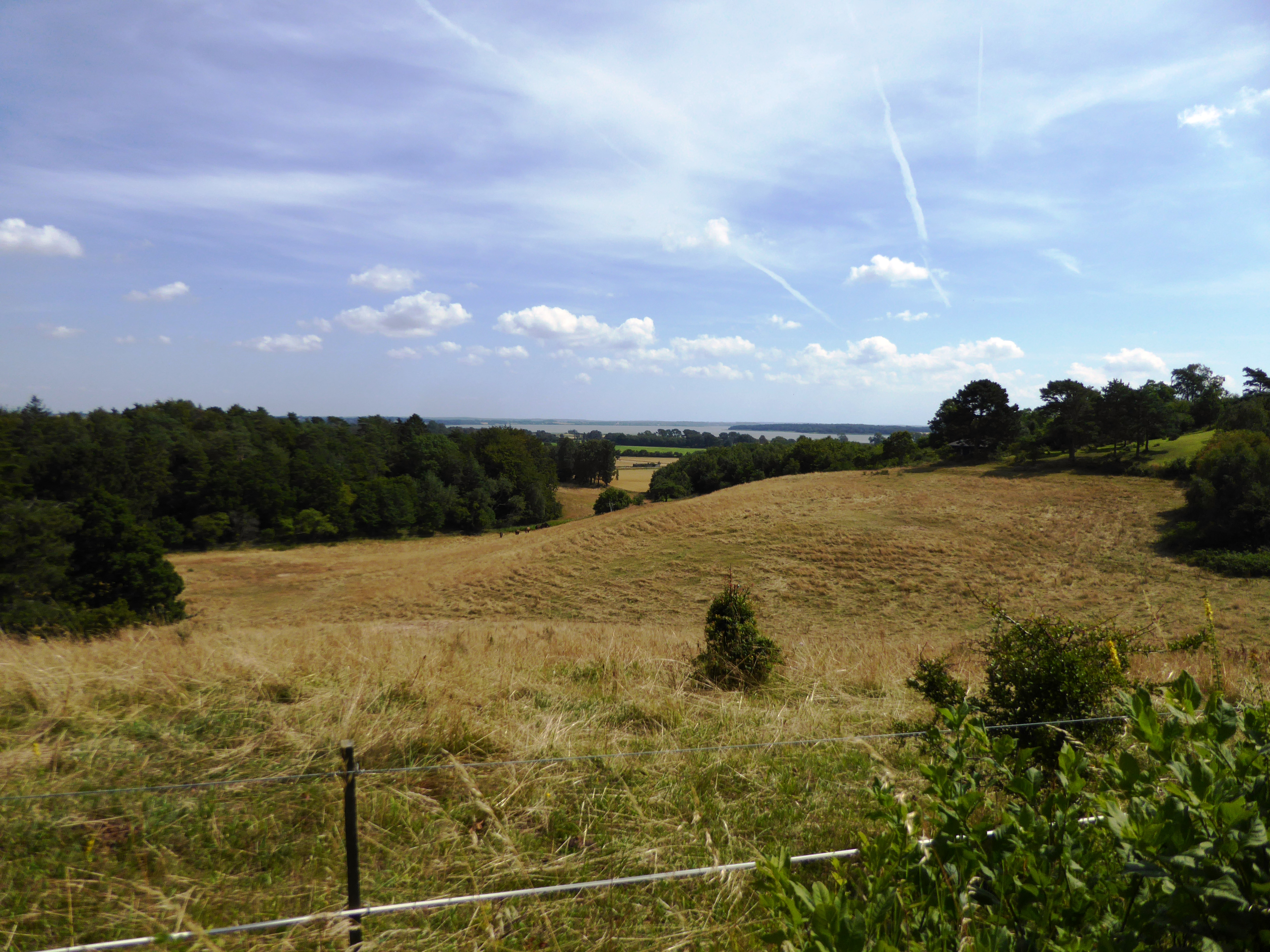 Arrenakke Bakker in Halsnæs Municipality, Denmark